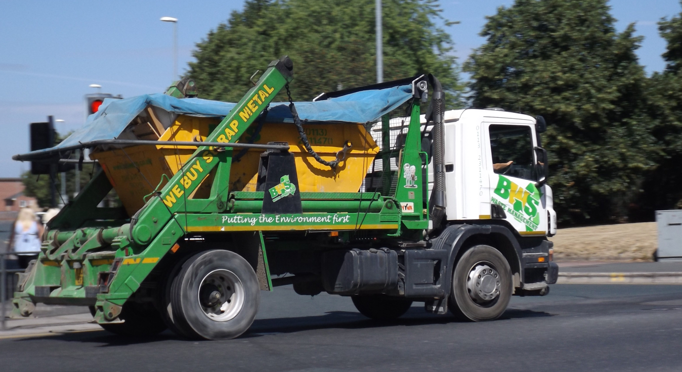 A skip being trasported by road.